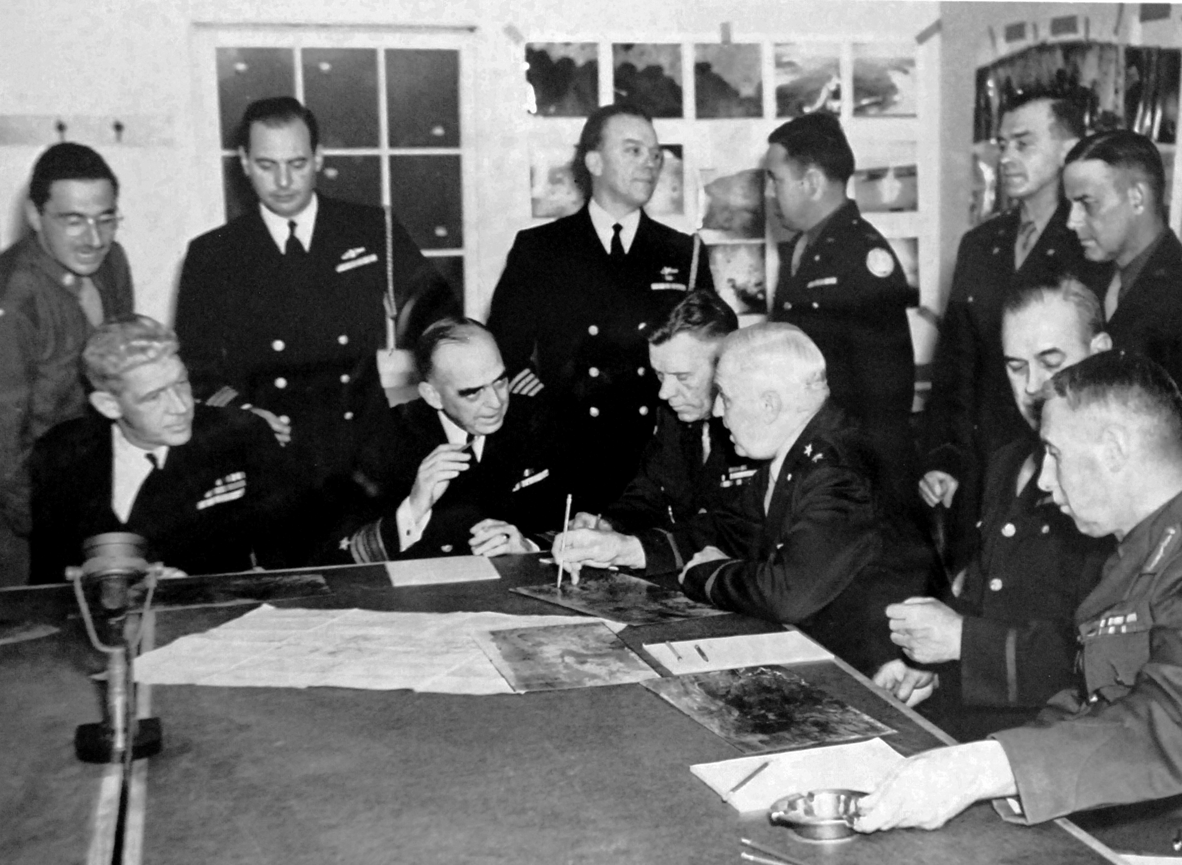 Lot-803-3: Aleutian Islands Campaign, June 1942 - August 1943. Planning for the Kiska Expedition. American and Canadian military leaders in the North Pacific are shown here holding a final conference at the Aleutian headquarters of Vice Admiral Thomas C. Kinkaid, Commander, North Pacific Force, before the Allied landing on Kiska, August 15, 1943. Seated around the table in Admiral Kinkaid’s headquarters are, (left to right): Rear Admiral Francis Warren Rockwell, USN, Commander, Pacific Amphibious Forces; Vice Admiral Thomas C. Kinkaid, USN, Commander, North Pacific; Major General Charles Harrison Corlett, USA; Lieutenant General Simon Bolivar Buckner Jr, USA; Commanding General, Eleventh Air Force; Major General George Randolph Pearkes, RCA, General Officer, Commanding-in-Chief, Canadian Pacific Command. Standing, (left to right): An unidentified Army officer; Commander R.K. Dennison, USN, Chief of Staff to Rear Admiral Rockwell; Captain Oswald Symister Colclough, USN, Chief of Staff to Vice Admiral Kinkaid ; Colonel Carl T. Jones, AUS, Chief of Staff to Major General Corlett; Brigadier General J.L. Ready, USA, Brigadier General E.D. Post, AUS, Chief of Staff to General Buckner. U.S. Navy photograph. Photographed through Mylar sleeve. (2015/11/06).